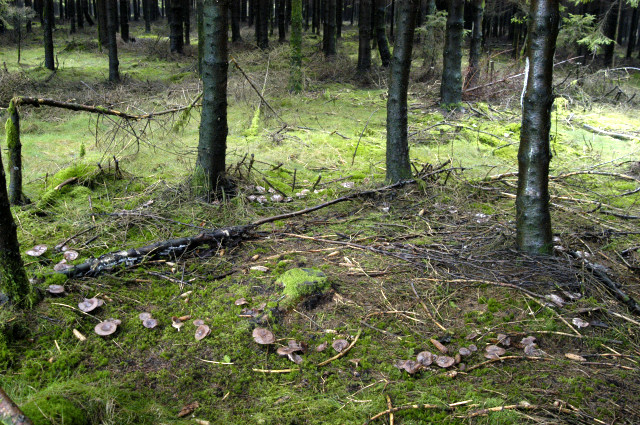 Melanoleuca brevipes from Commanster, Belgium. If you think this is a different taxon, please contact James Lindsey.